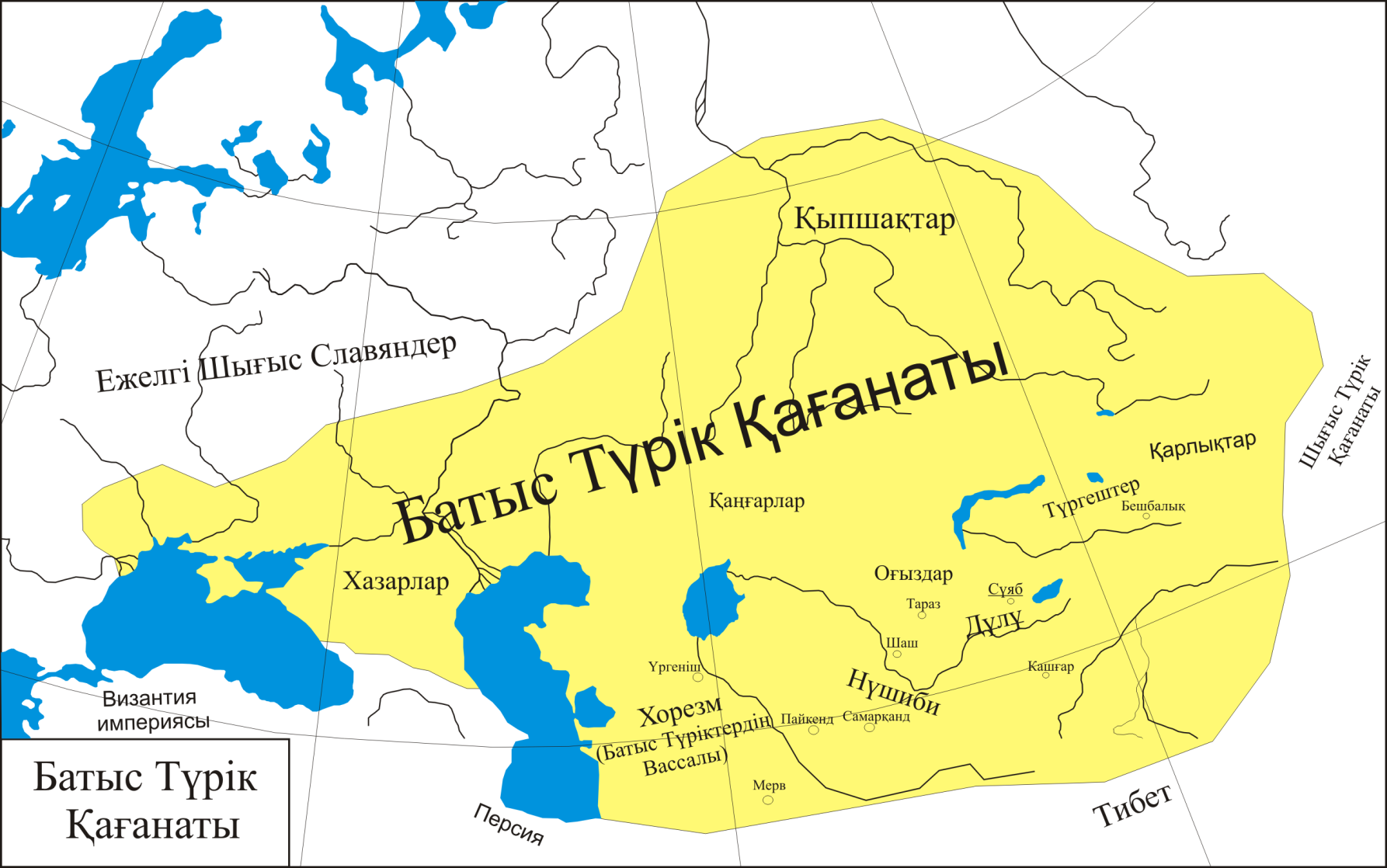 Western-Turk kaganat map